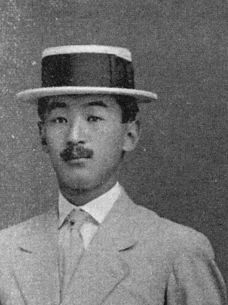 Nobuhiro Oda